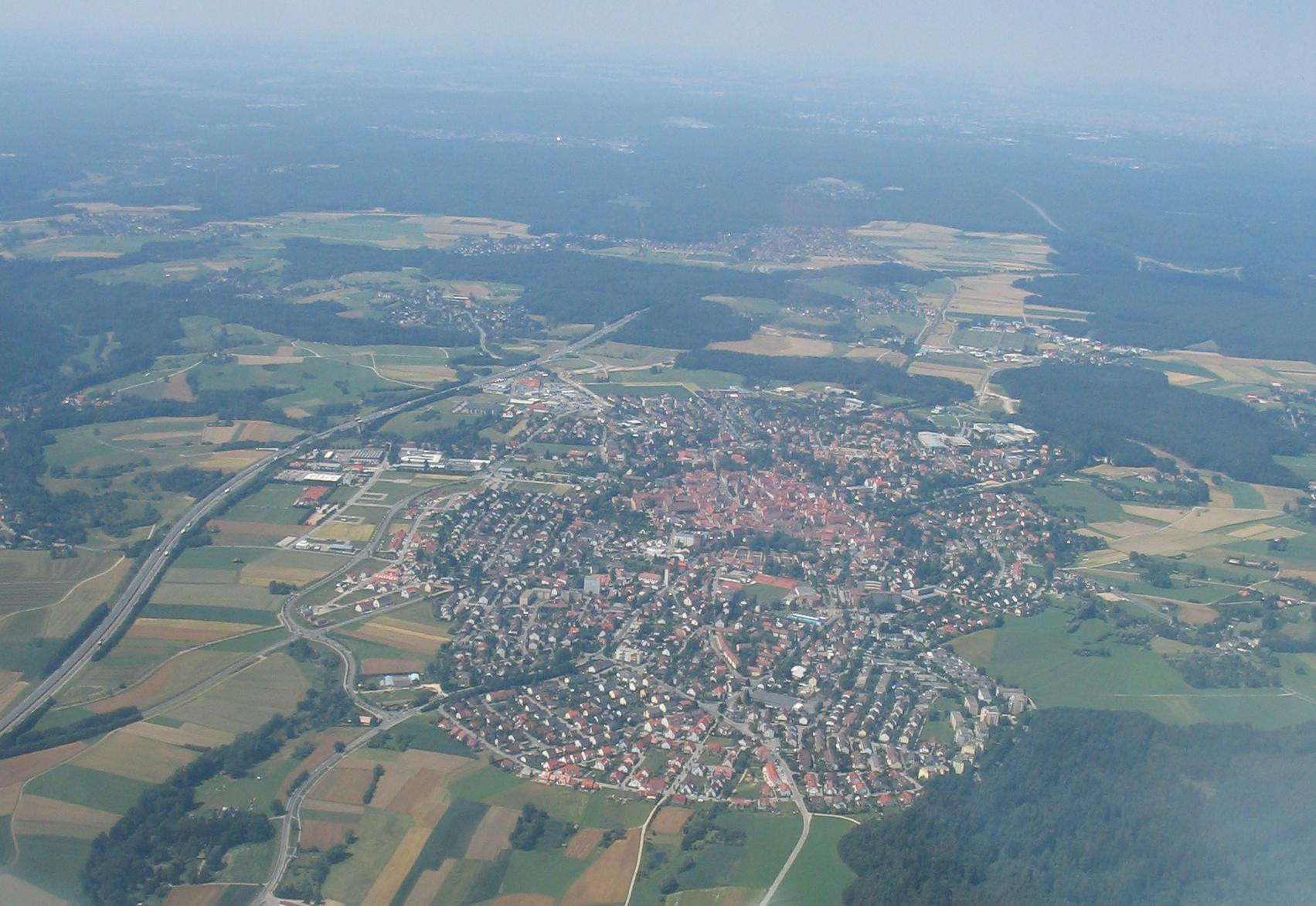 Altdorf bei Nürnberg, Germany, 2005. Seen from the air, about from east. Photo by User:Jarlhelm